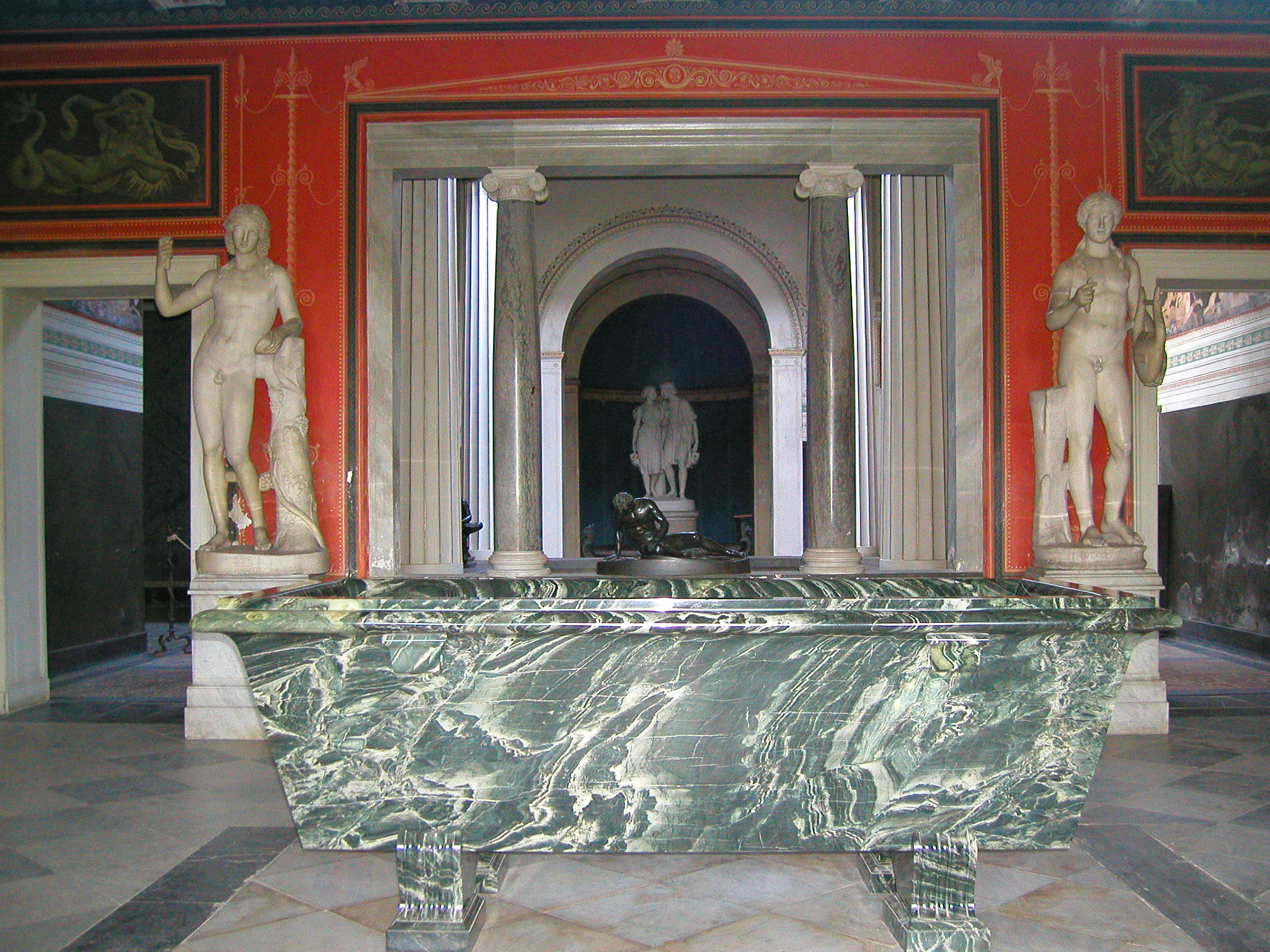 Atrium of the Roman Baths in Sanssouci Park (Potsdam) with a decorative tub of green jasper, a gift of Czar Nicholas I to his brother-in-law, Frederick William IV of Prussia.